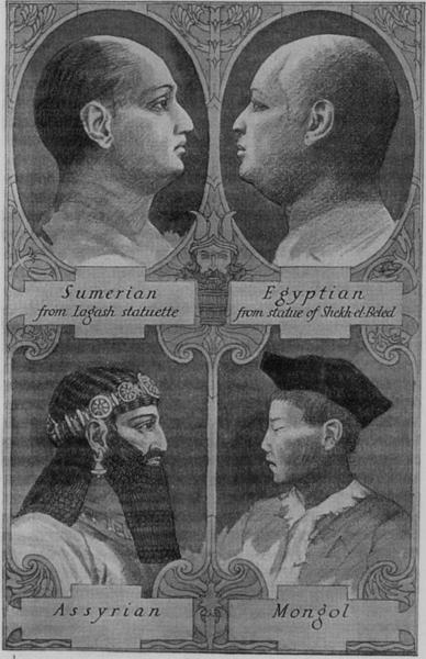 Examples of racial types.